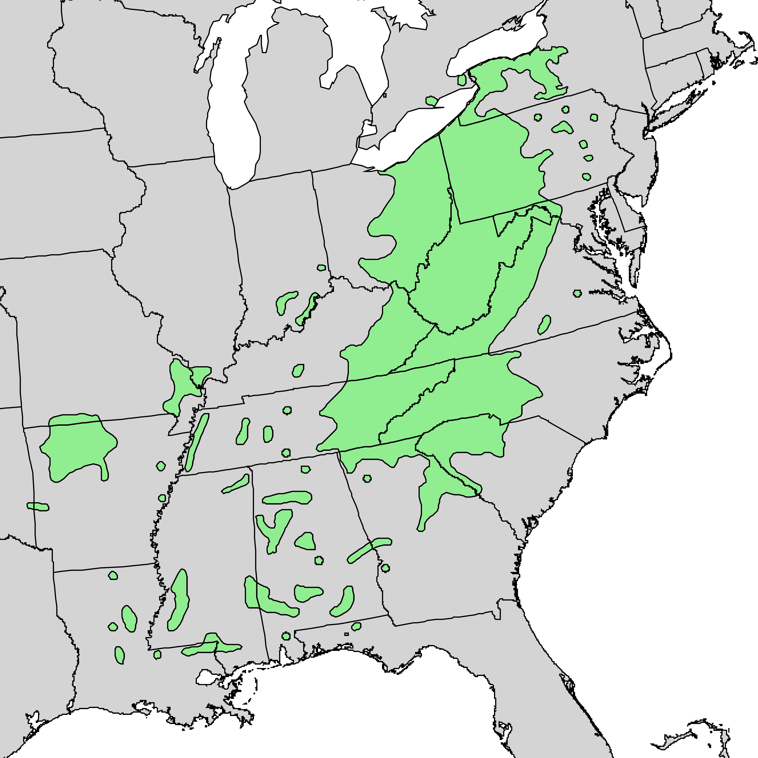 Distribution map of Magnolia acuminata.